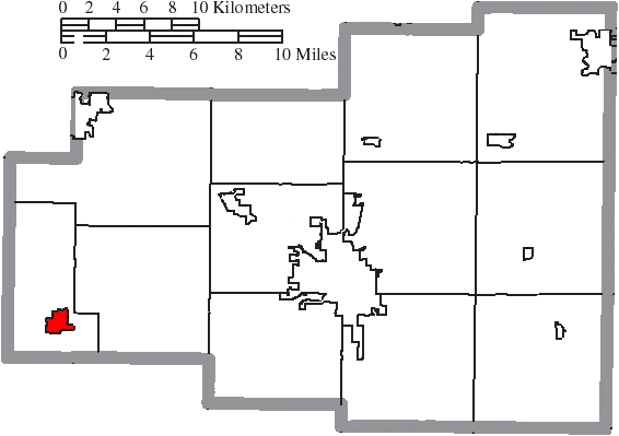 Map of the municipal and township boundaries of Allen County, Ohio, United States, as of the 2000 census, with the location of the village of Spencerville highlighted. Township borders are shown only in unincorporated areas in order to differentiate incorporated and unincorporated areas more clearly.